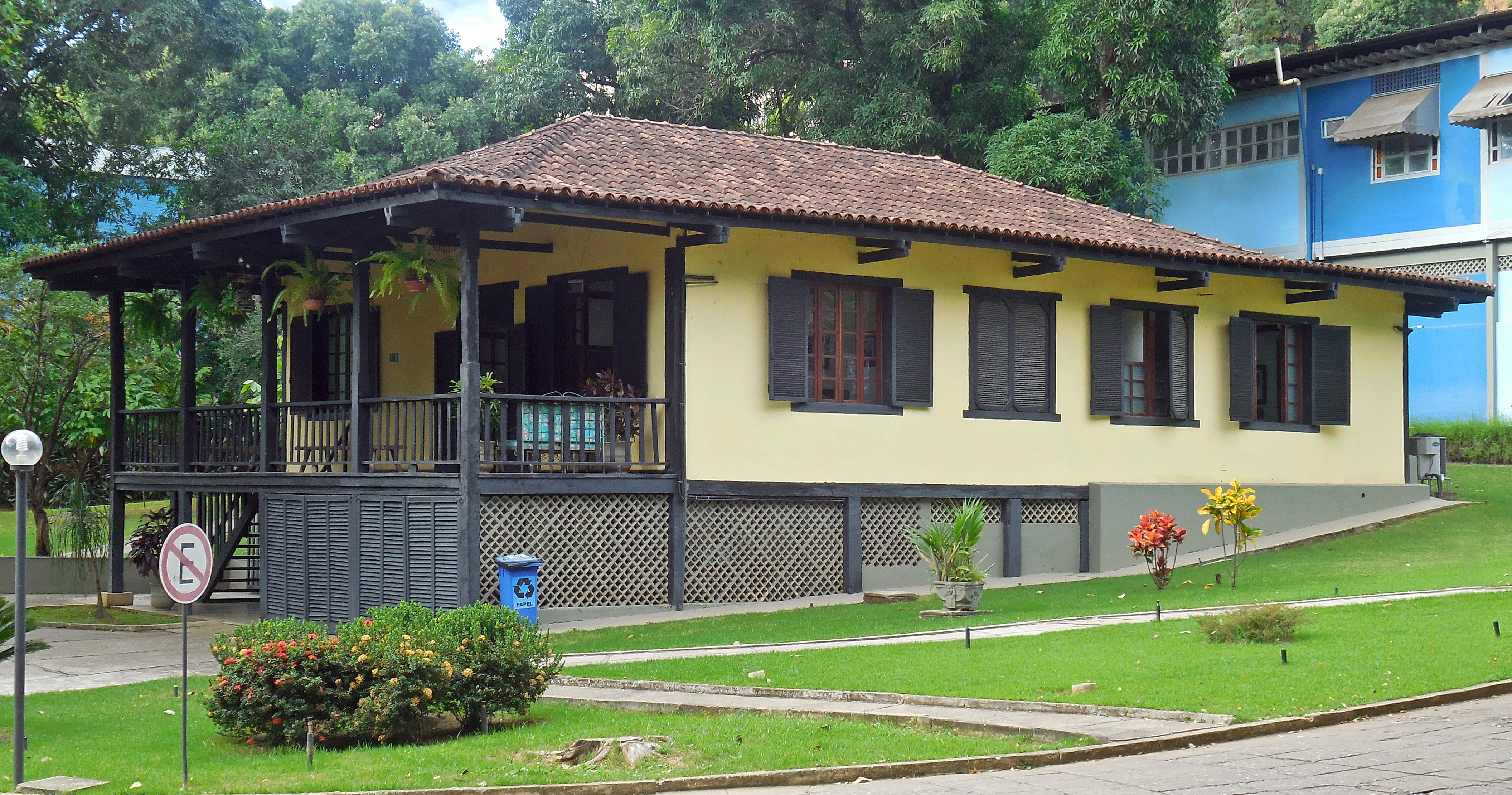 The "Fazendinha" of the Centro Universitário do Leste de Minas Gerais (Unileste), in Coronel Fabriciano, Minas Gerais, Brazil.